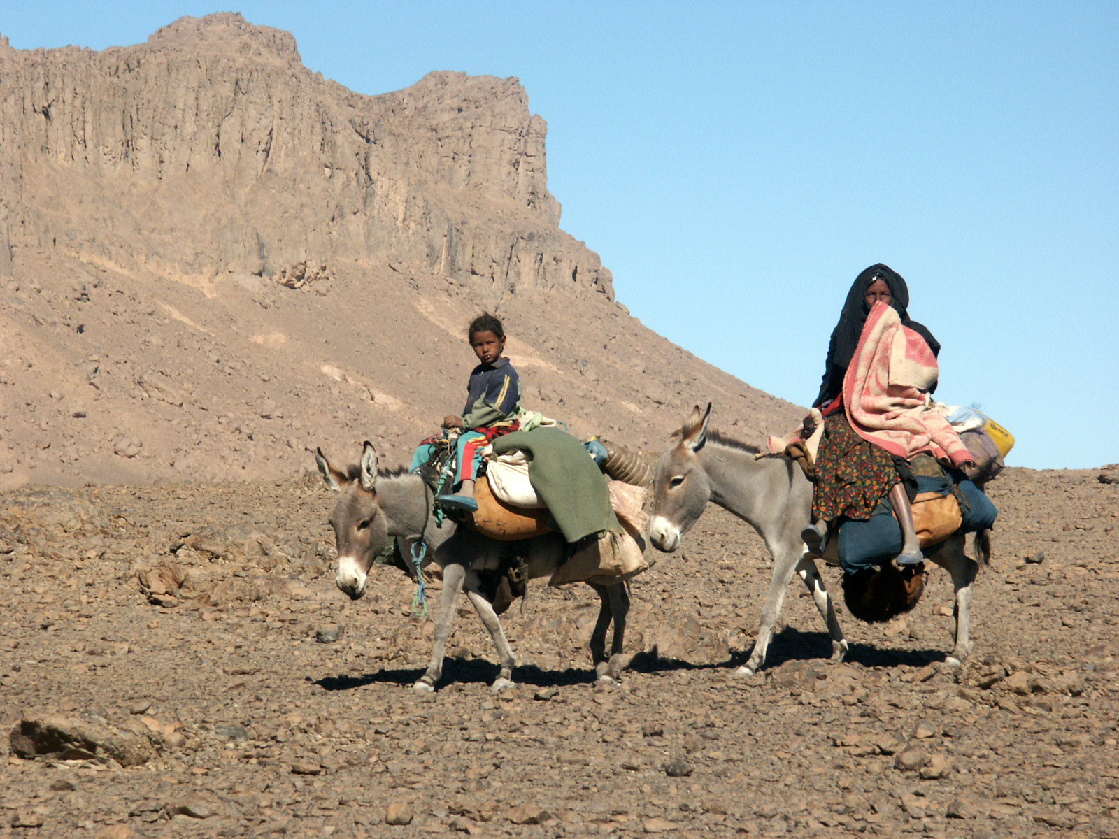 Picture of tuareg nomads in the south of Algeria.